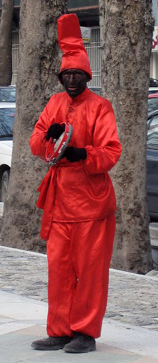 Me & Arash Mozaffari Were Walking in Tehran by Mellat Park Where We Saw Him. Tought It's The Best Time to Get The Shot of Haaji Firuz...